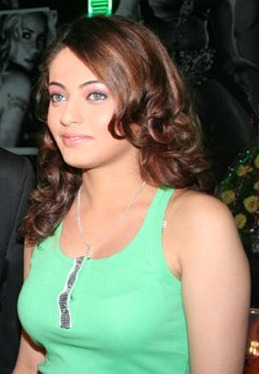 Sneha Ullal in Mahurat of kaash mere hote